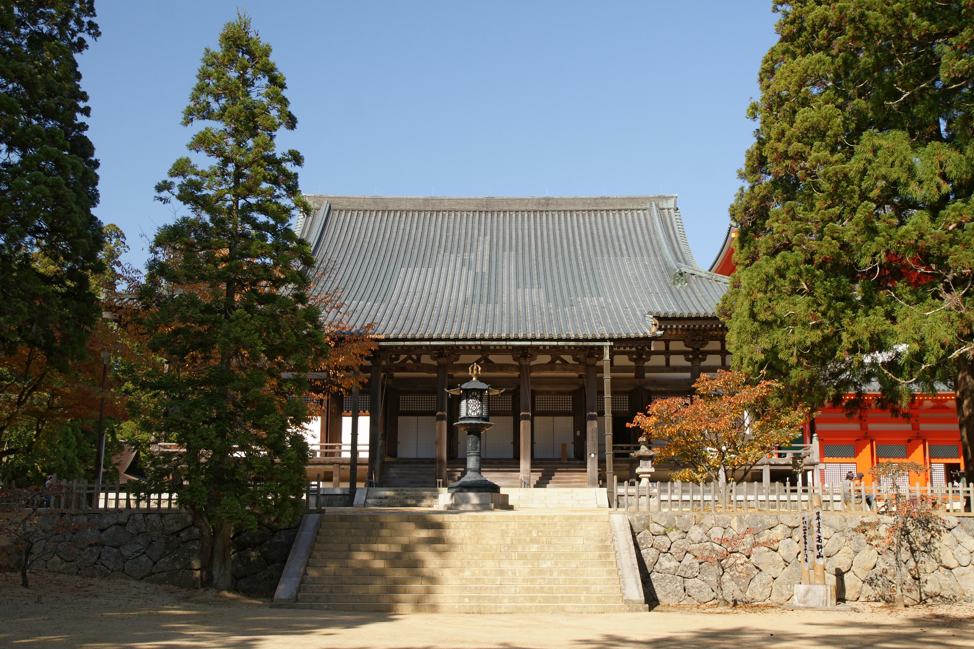 Danjōgaran in Mount Kōya, Wakayama prefecture, Japan.